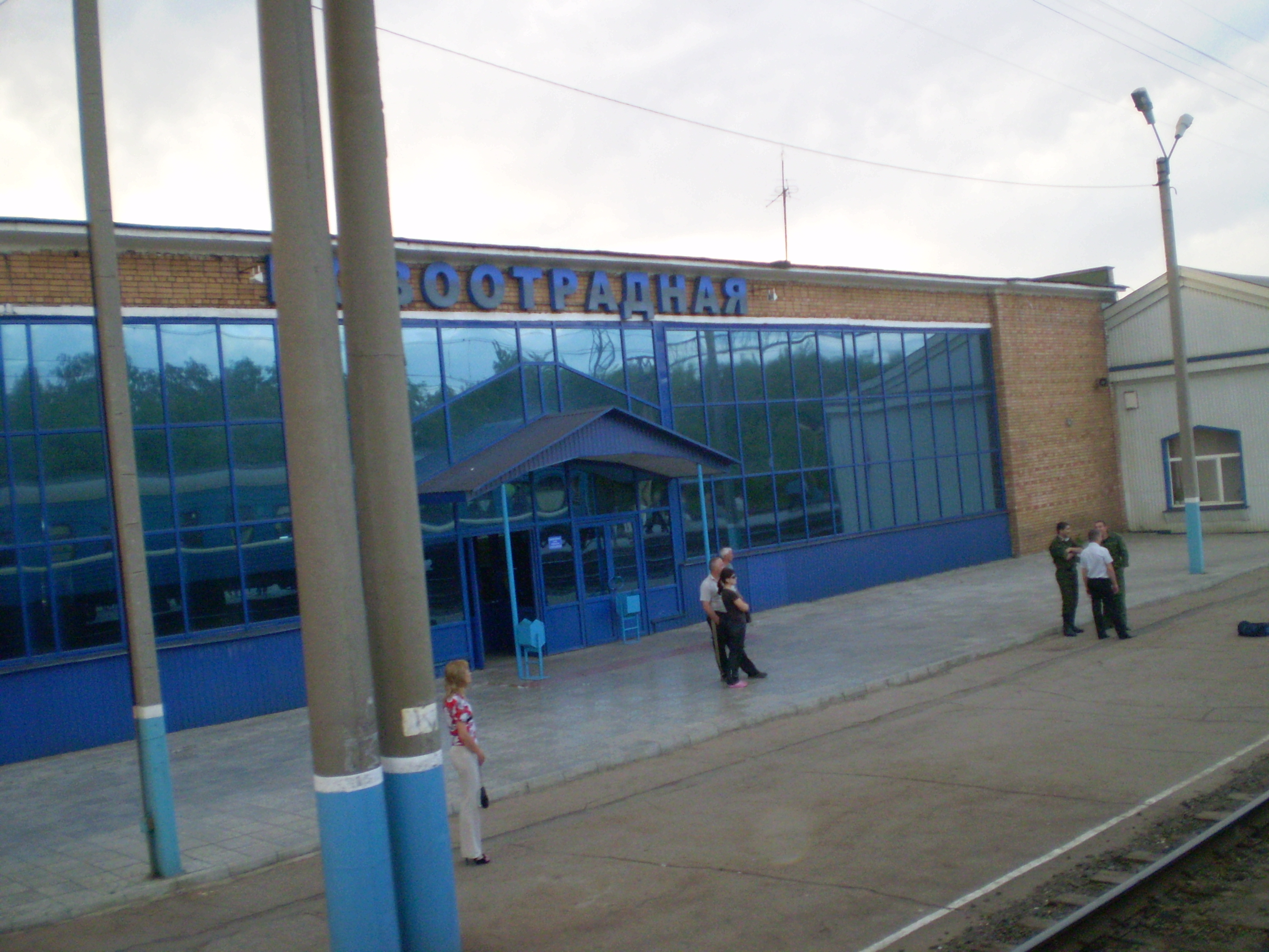 Novootradnaja railway station. View from the train window. The Otradnij town, Russia.